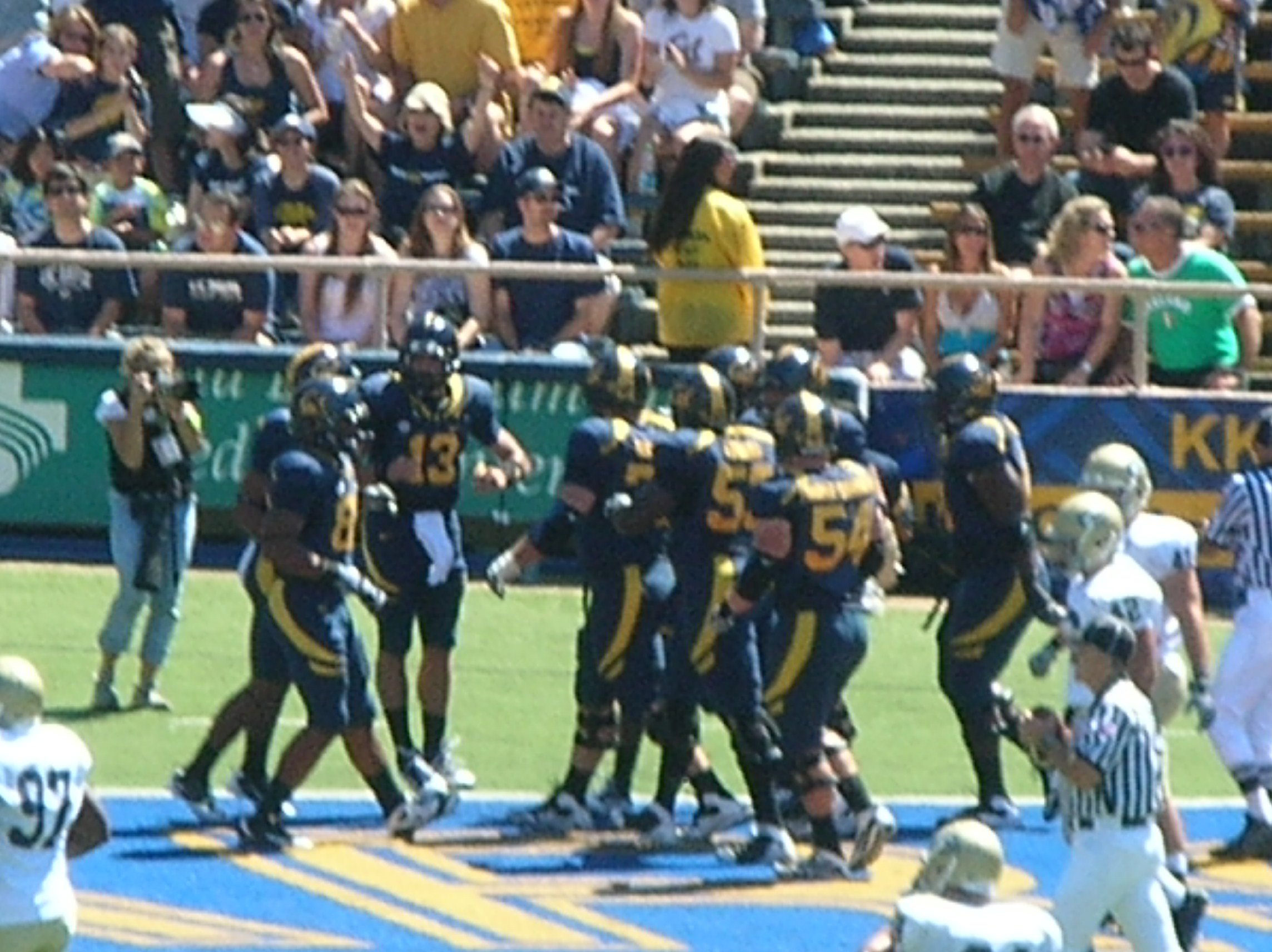 Cal players celebrate a touchdown reception by running back Shane Vereen during a home game against the UC Davis Aggies. The Bears won 52-3.